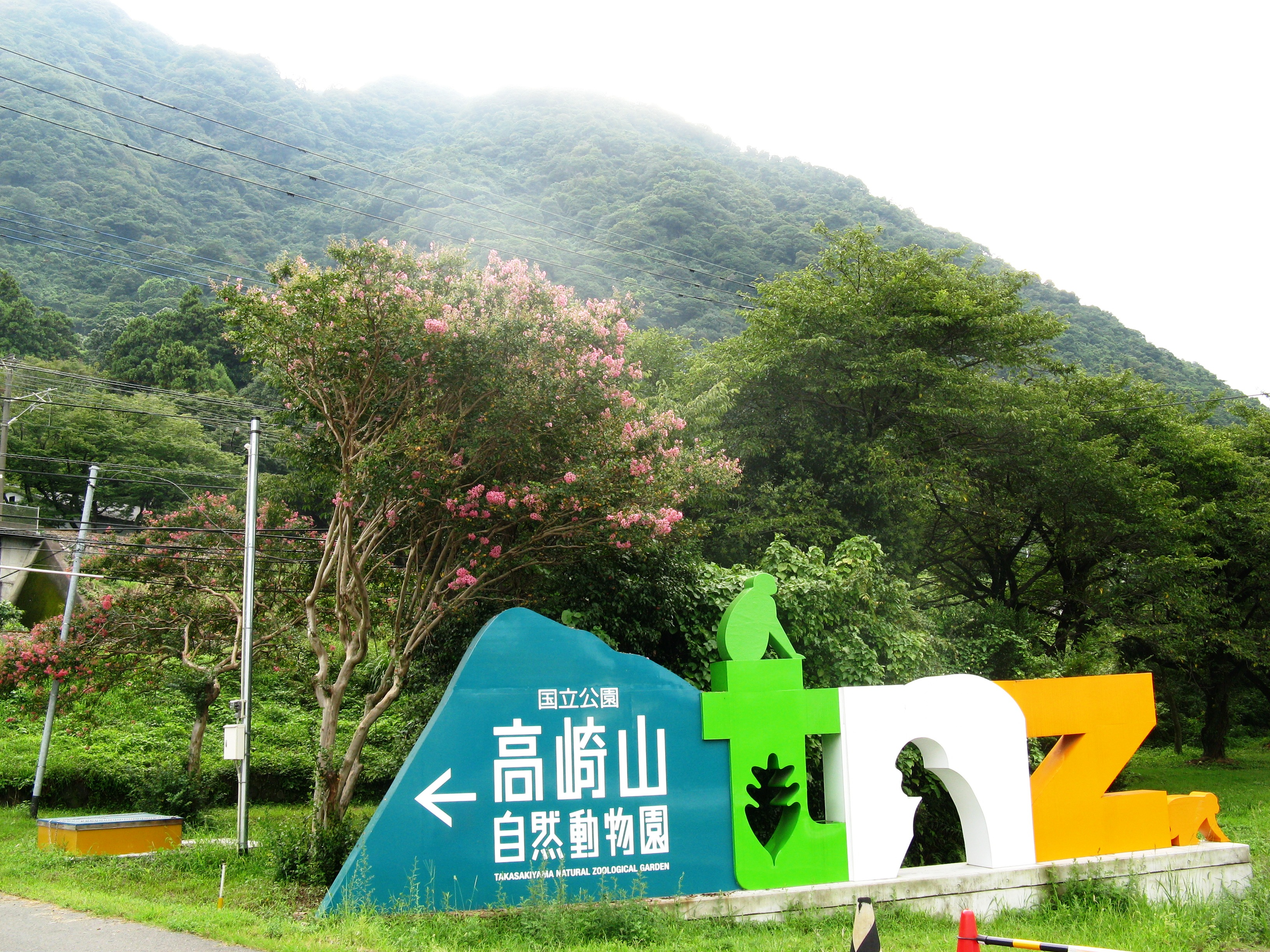 Takasaki Mountain, famous place for wild monkeys